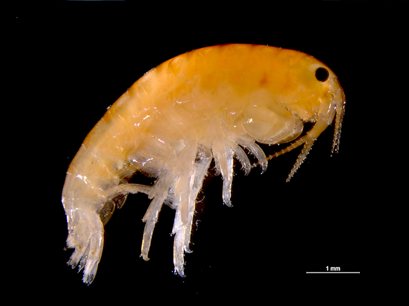 A benthic amphipod from the Belgian part of the North Sea. Length = 7 mm Focus stacking of 18 pictures.